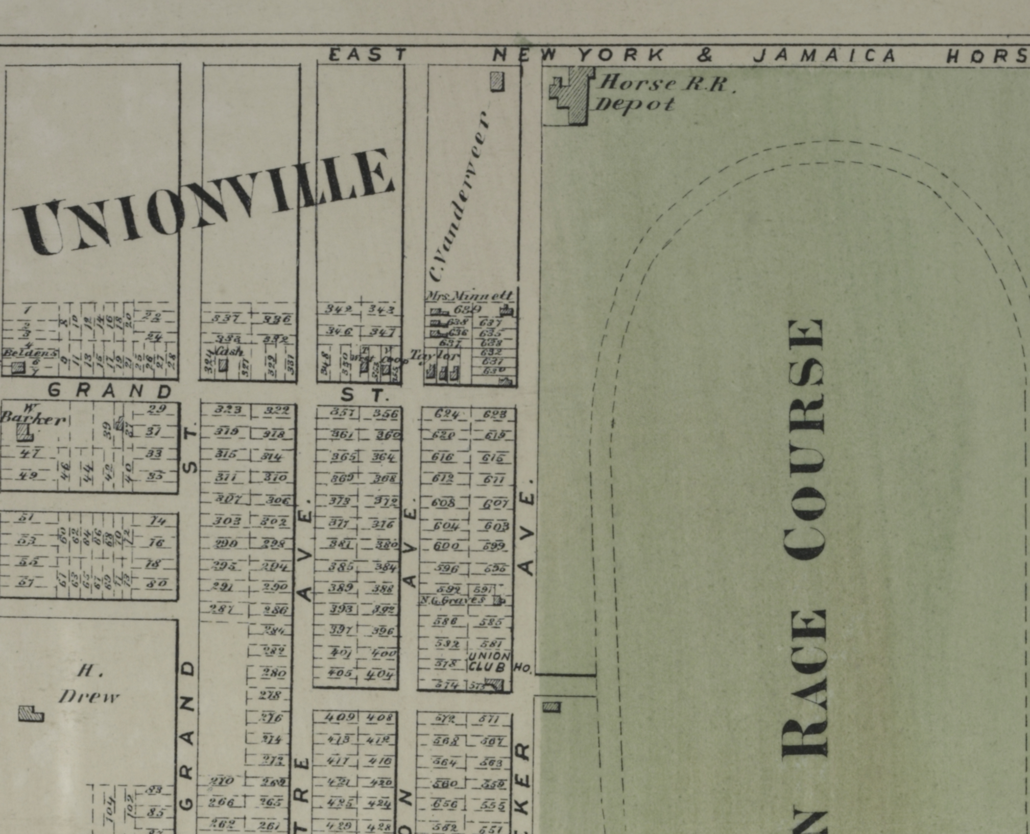 Union Club House, 1873 Beers map of Woodhaven detail of Unionville, intersection of Snedeker (78thSt.) and 88th Ave.